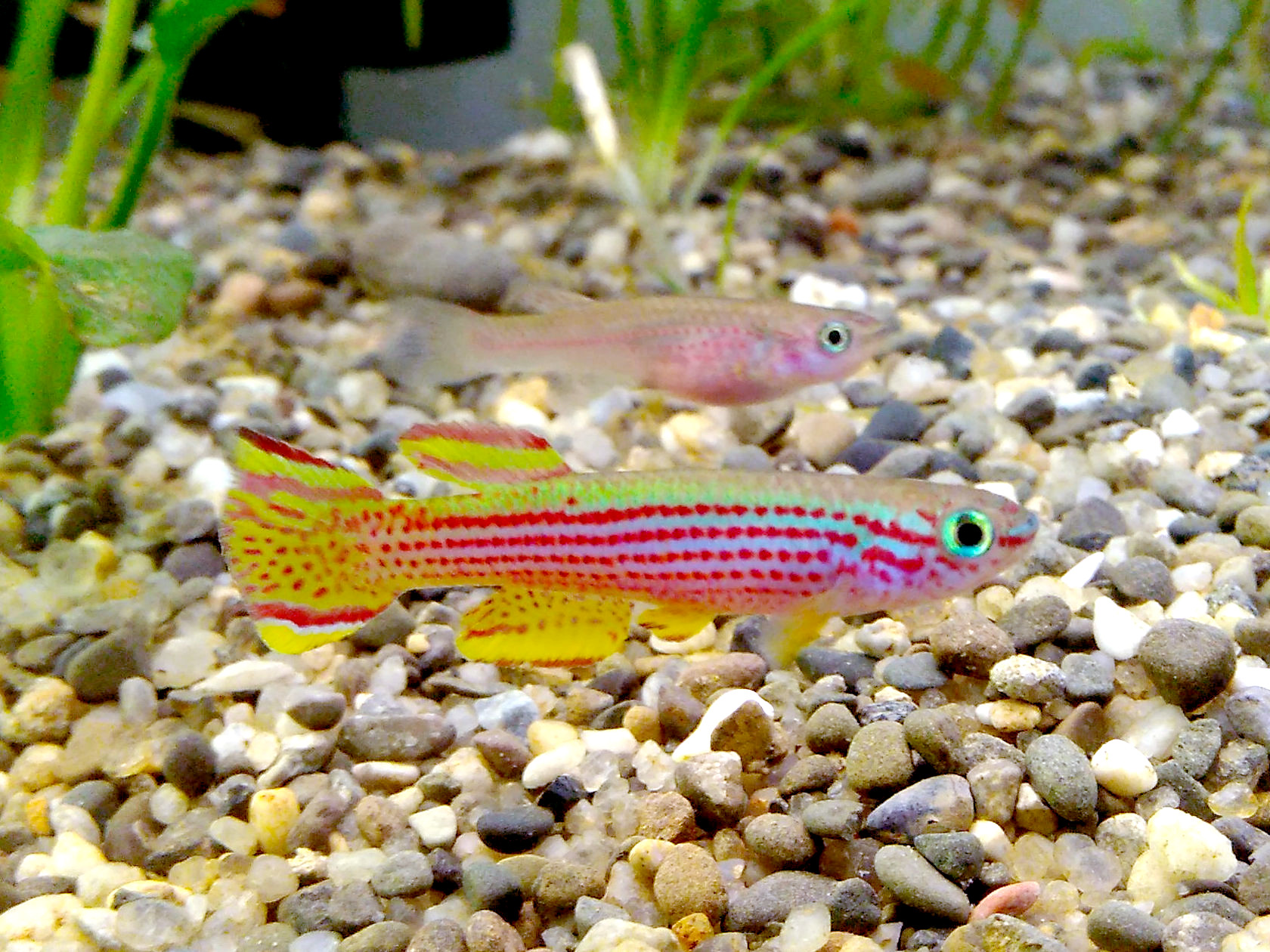 Juvenile adults male and female of Aphyosemion striatum